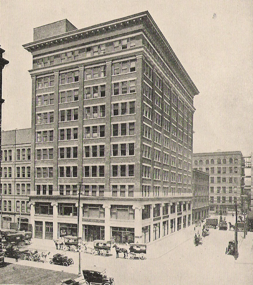 Eaton's House Furnishing Building, Toronto, Canada, 1919. Copyright expired. North West corner of James and Albert Streets in Toronto. Old City Hall is to left of the photo.